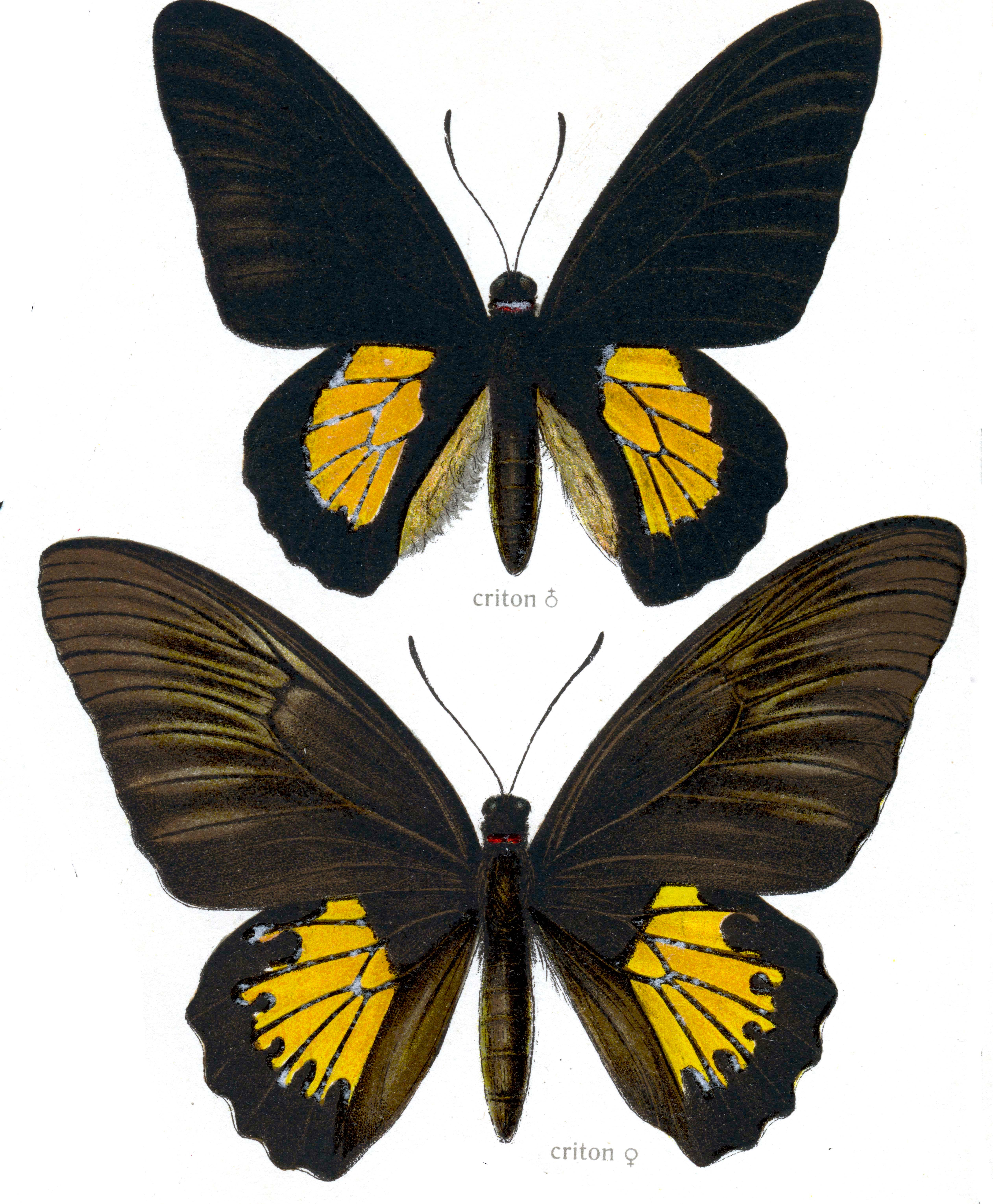 1.: Criton Birdwing, male, upperwing; 2.: Criton Birdwing, andrognya form female, upperwing